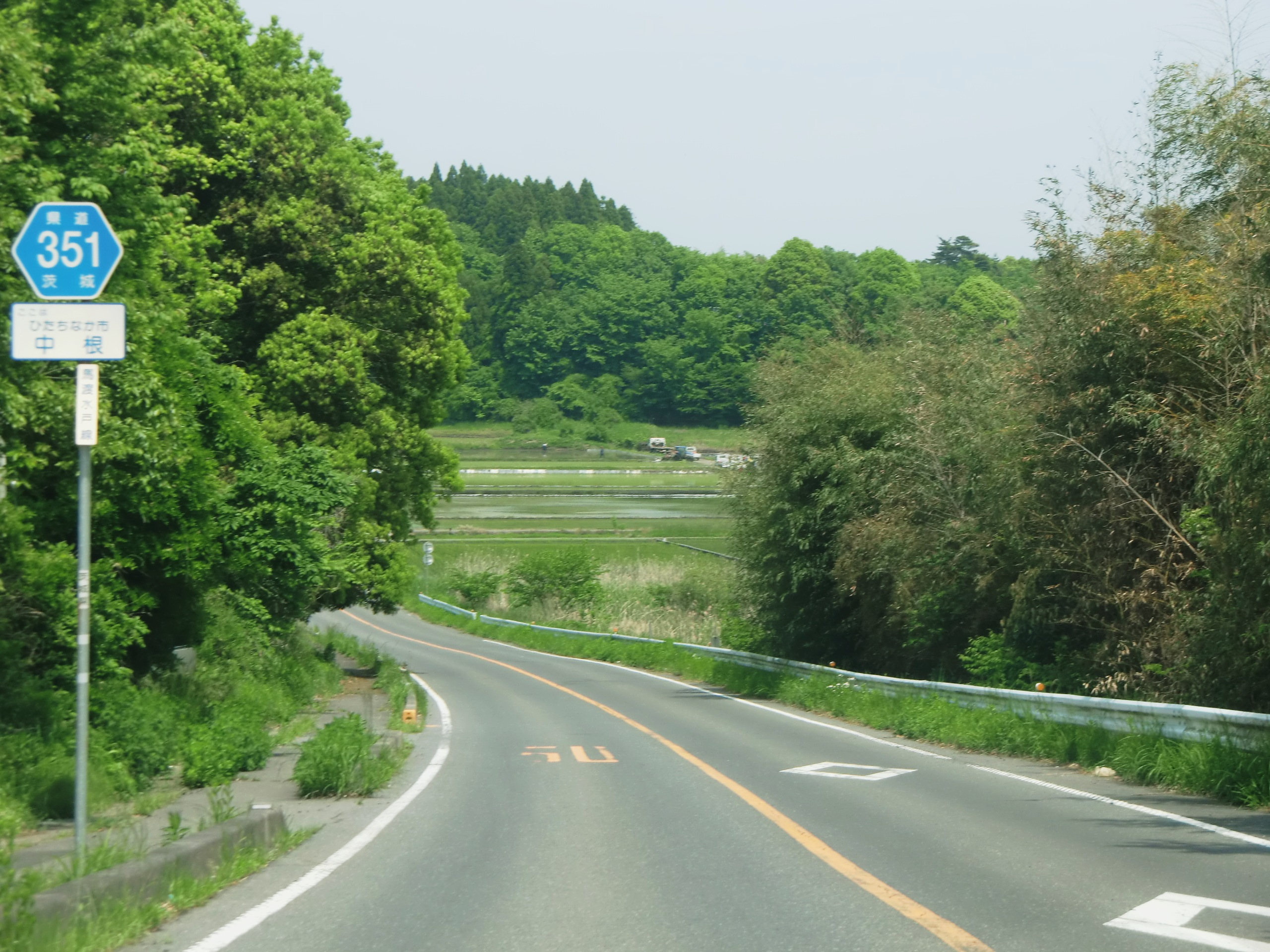 Ibaraki prefectural road 351 (Mawatari-Mito line) in Nakane, Hitachinaka city, Ibaraki prefecture, Japan.